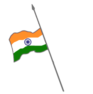 The flag of India to half-staff. It was made by the image: Image:IndiaFlagTwoNations.png